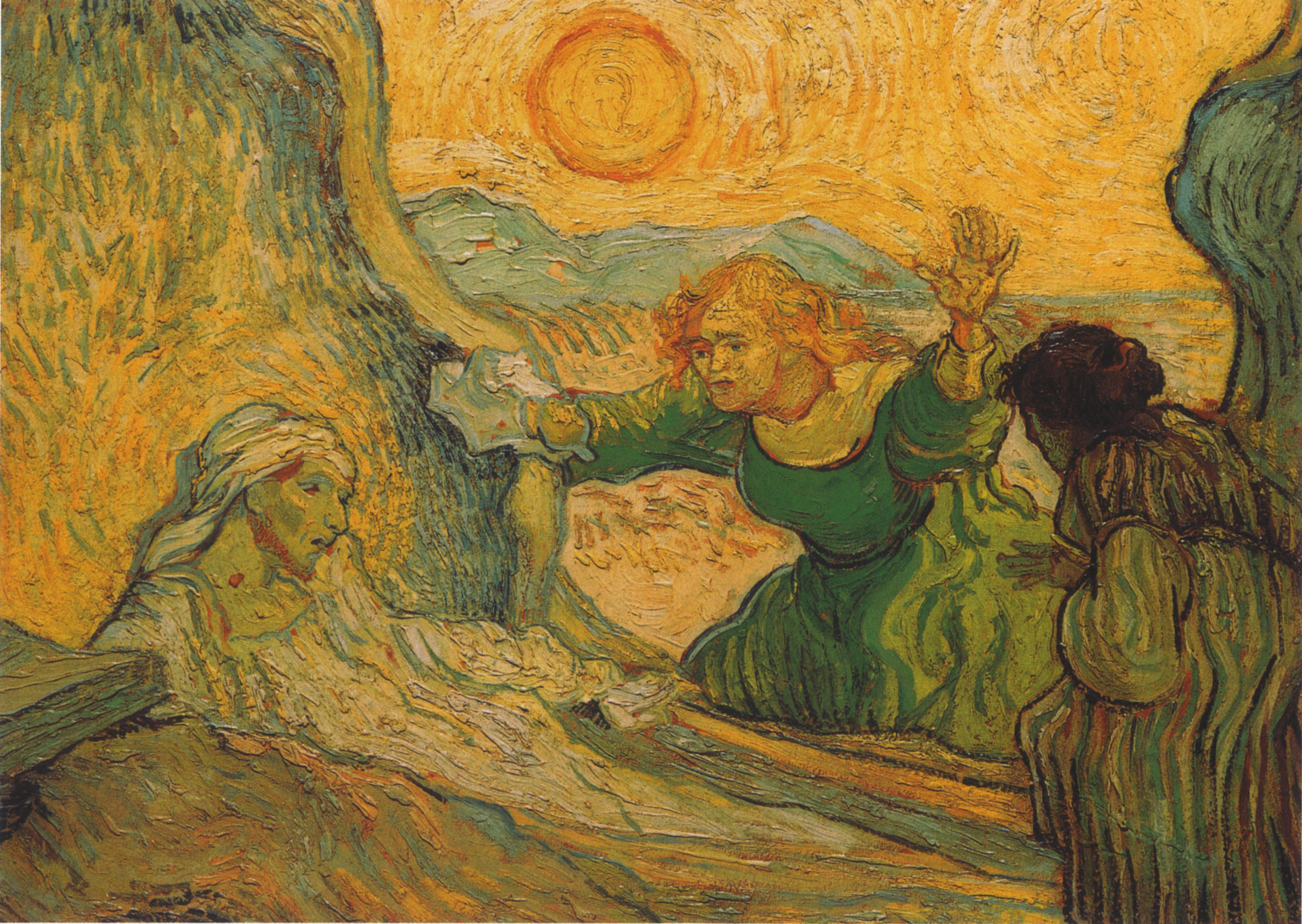 Painting by Vincent van Gogh, 1890